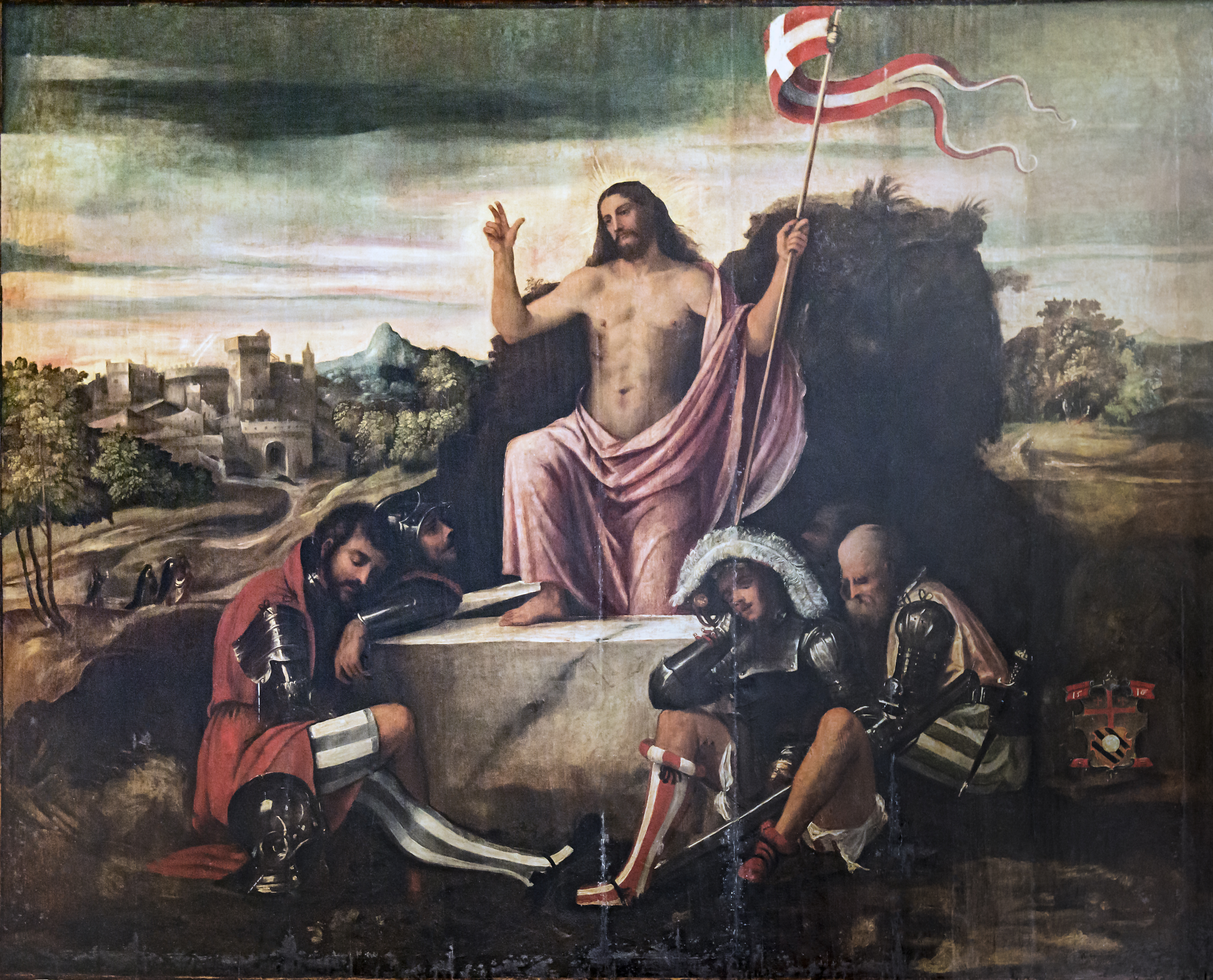 Cappella Bragadin of San Francesco della Vigna (Venice). Painting of the right wall: The Resurrection of Christ by Giovanni da Asola. Oil on canvas.